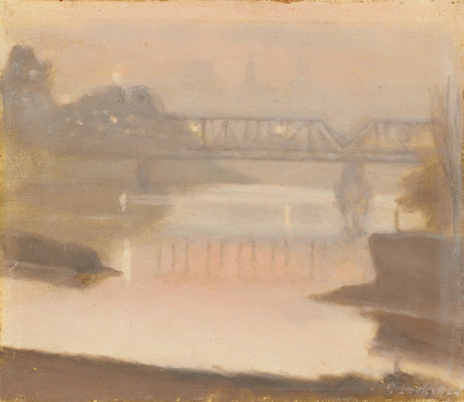 The Yarra, Sunset, painting, oil on board, 30.5 x 35.5 cm, by Clarice Beckett